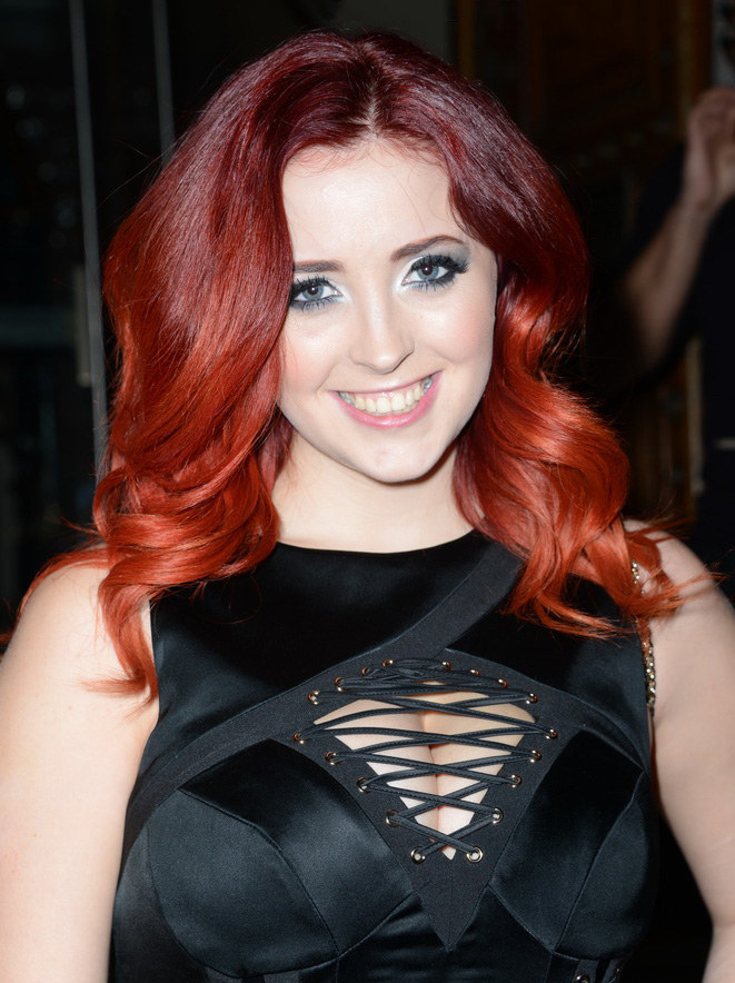 Lucy Collett attending the Nuts magazine 10th anniversary party on January 23, 2014.